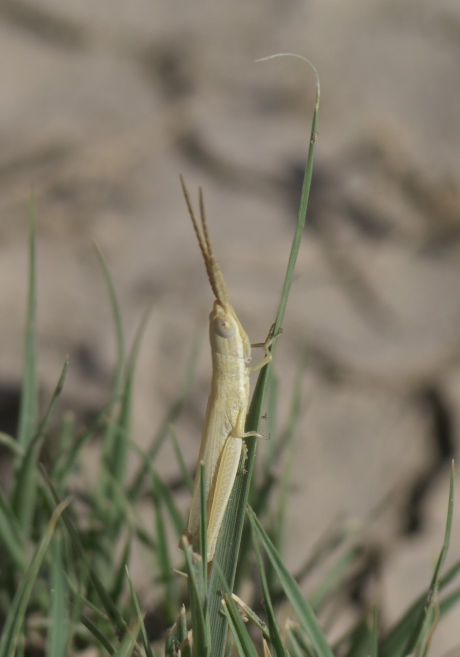 Paropomala wyomingensis, Wyoming Toothpick Grasshopper, ID Confidence: 88